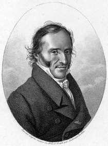 French zoologist and paleontologist Frédéric Cuvier (1773-1838) by Ambroise Tardieu (1788-1841).